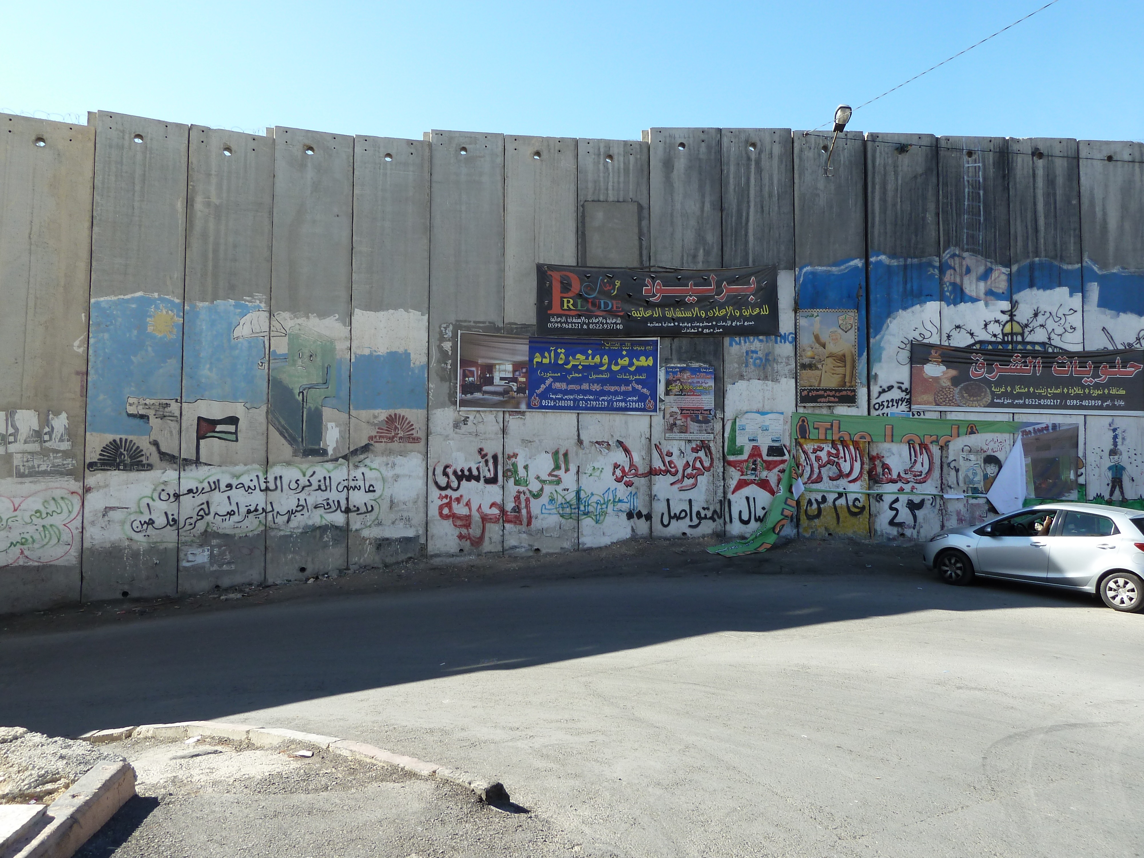 Israel Bethany (arab name : Al-Eizariya) : The Wall accross Jericho road, seen from the palestinian side.